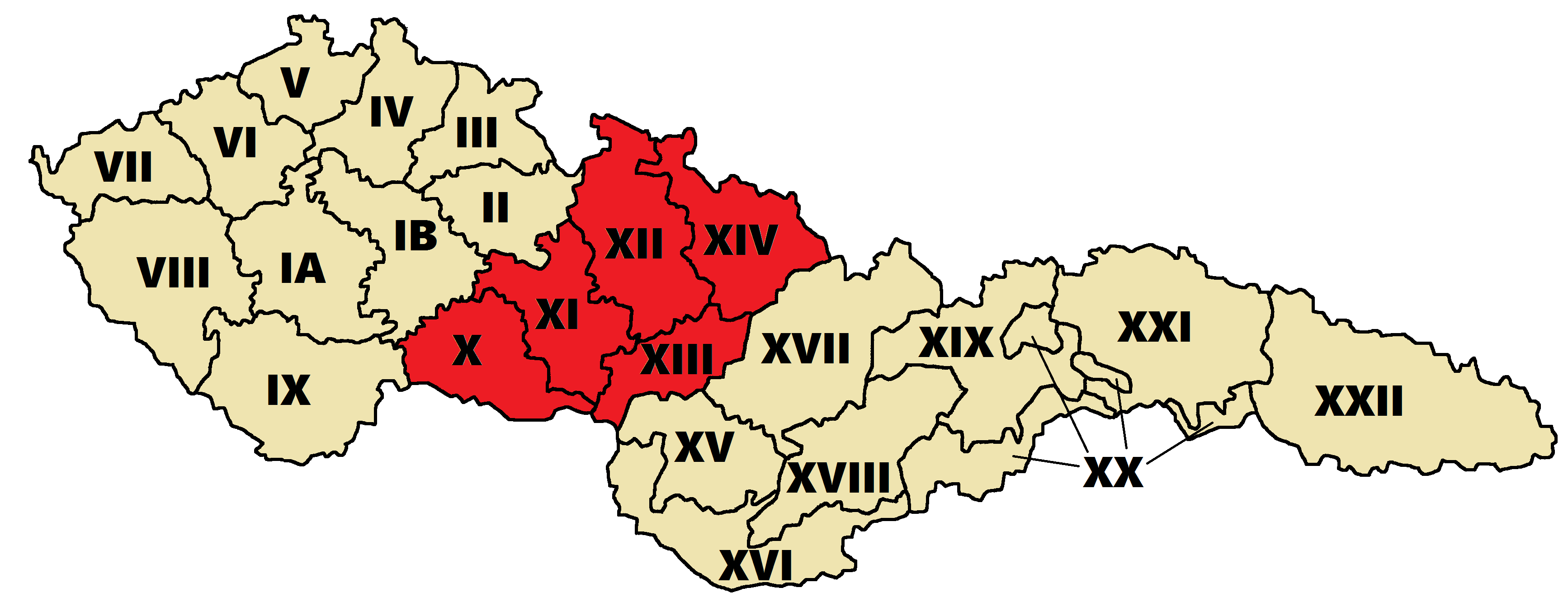 Based on File:Electoral districts (Chamber of Deputies) in Czechoslovakia 1925, 1929, 1935 (numbered).png